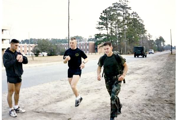 Sgt. Brant Boyd encourages Matt Upanavage while a Marine records his time, during the last few yards of the Ruck Run event of the Indoc.